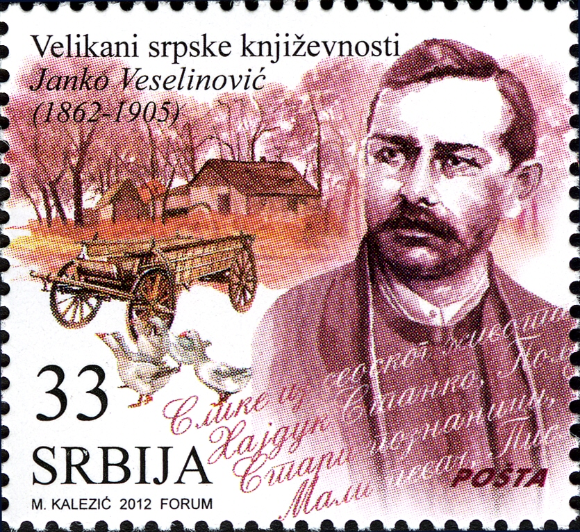 Great Authors of Serbian Literature